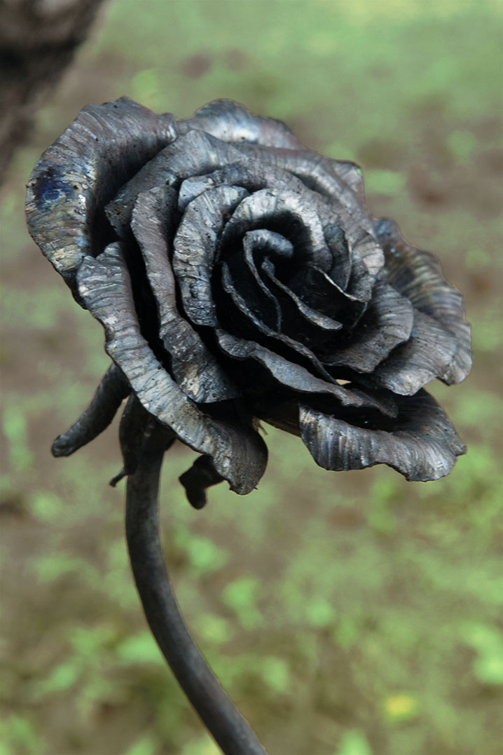 The Róisín Dubh is an Irish political song, illustrated here by a black iron rose.